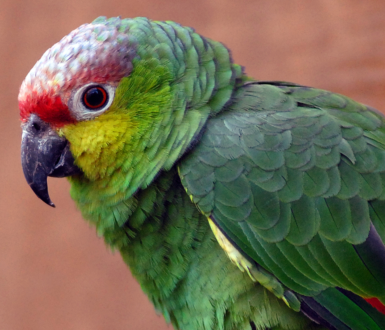 Lilacine Amazon (also known as the Ecuadorian Red-lored Amazon) at Chester Zoo, England.